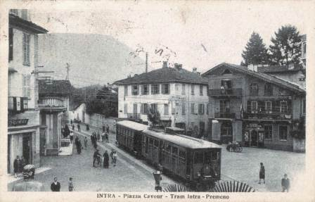 Intra, tramway